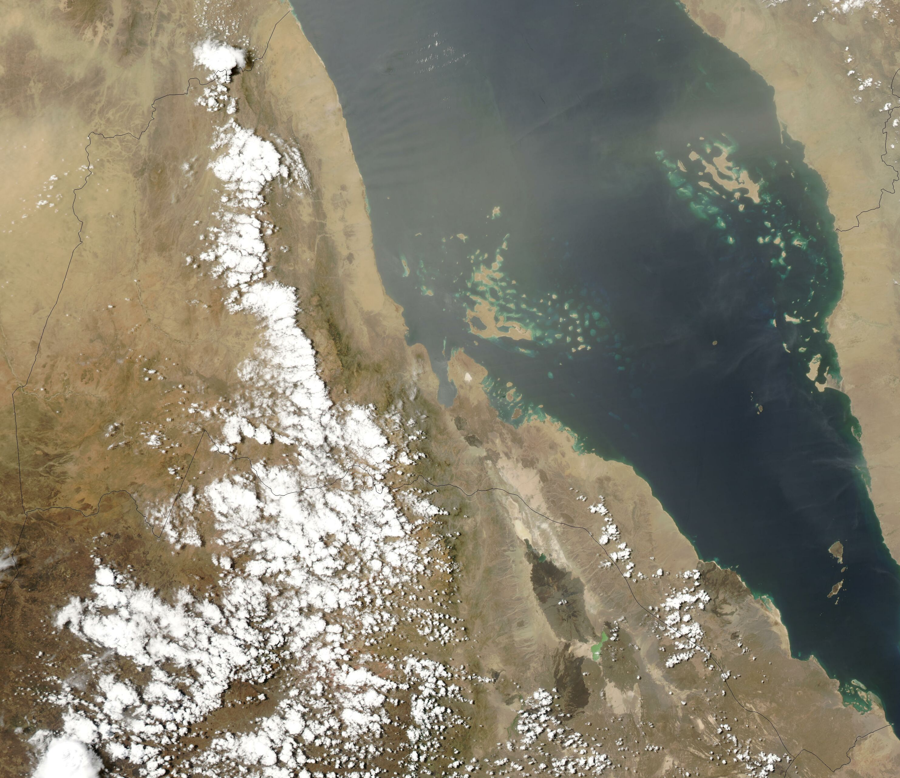 Satellite image of Eritrea in May 2003.